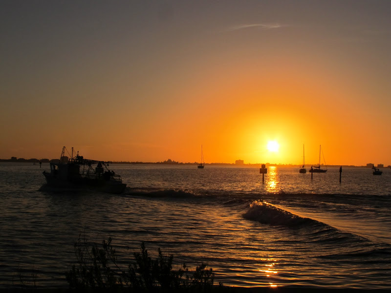 Sunset in Gulfport, Florida in December 2012 from Clam Bayou Park looking out to Boca Ciega Bay, photographed on an evening stroll.